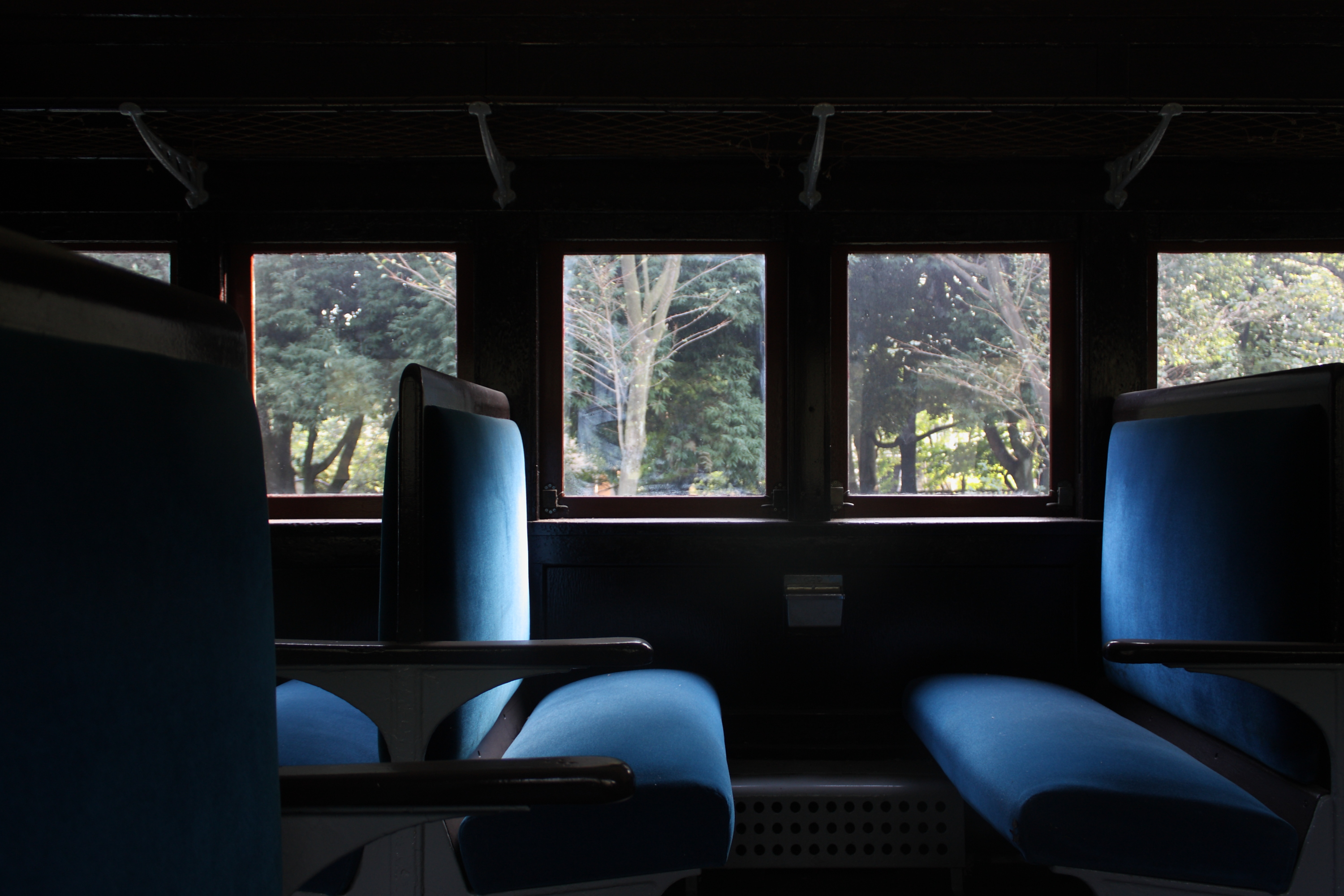 Interior of the JNR passenger car suhafu 32.